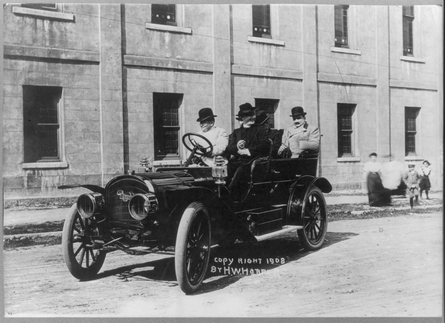 Enrico Caruso, 1873-1921, half-length portrait, seated in "Rambler" automobile, facing left, with 4 other men